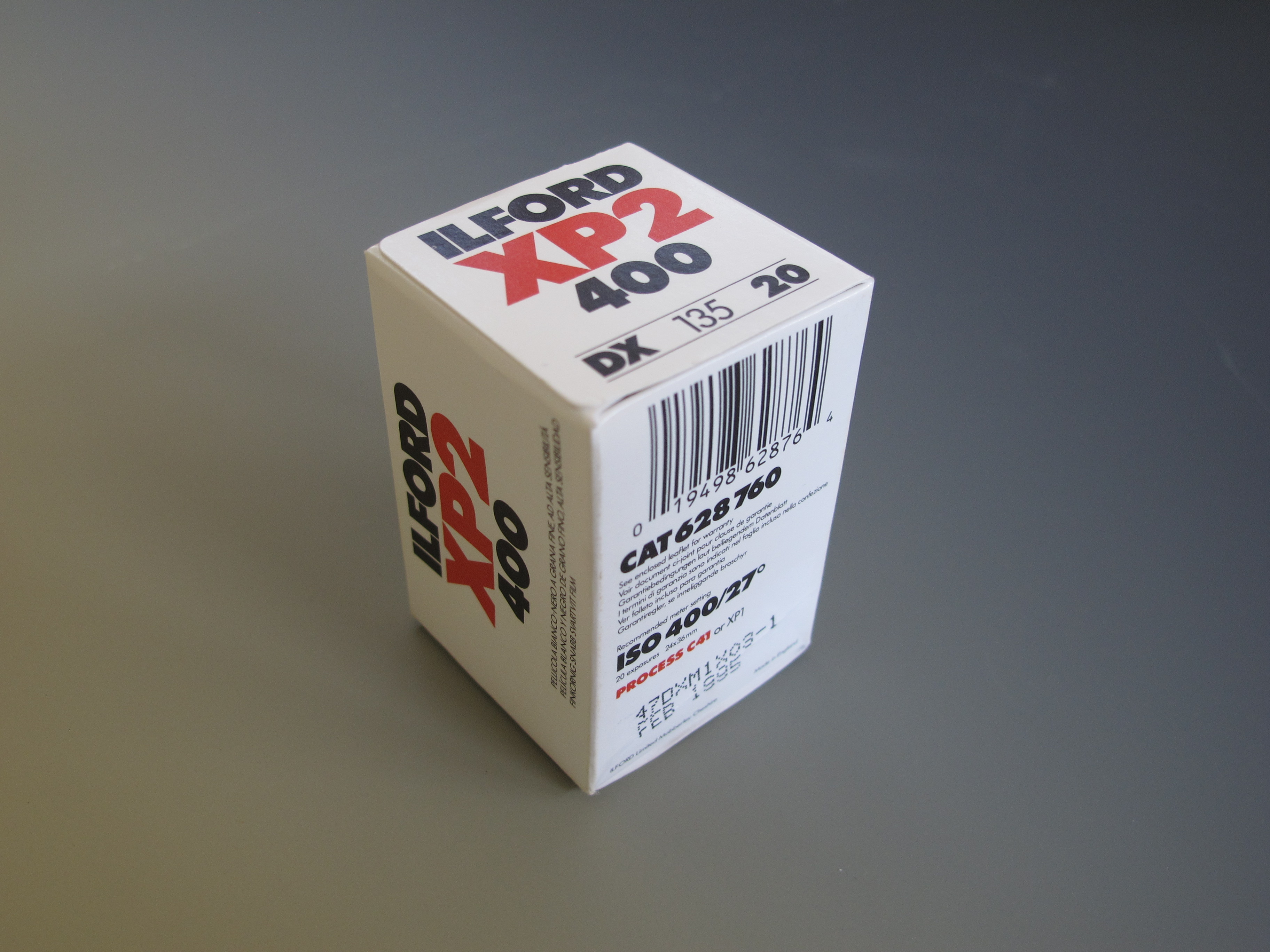 Ilford 35 mm black and white film package Ilford XP2